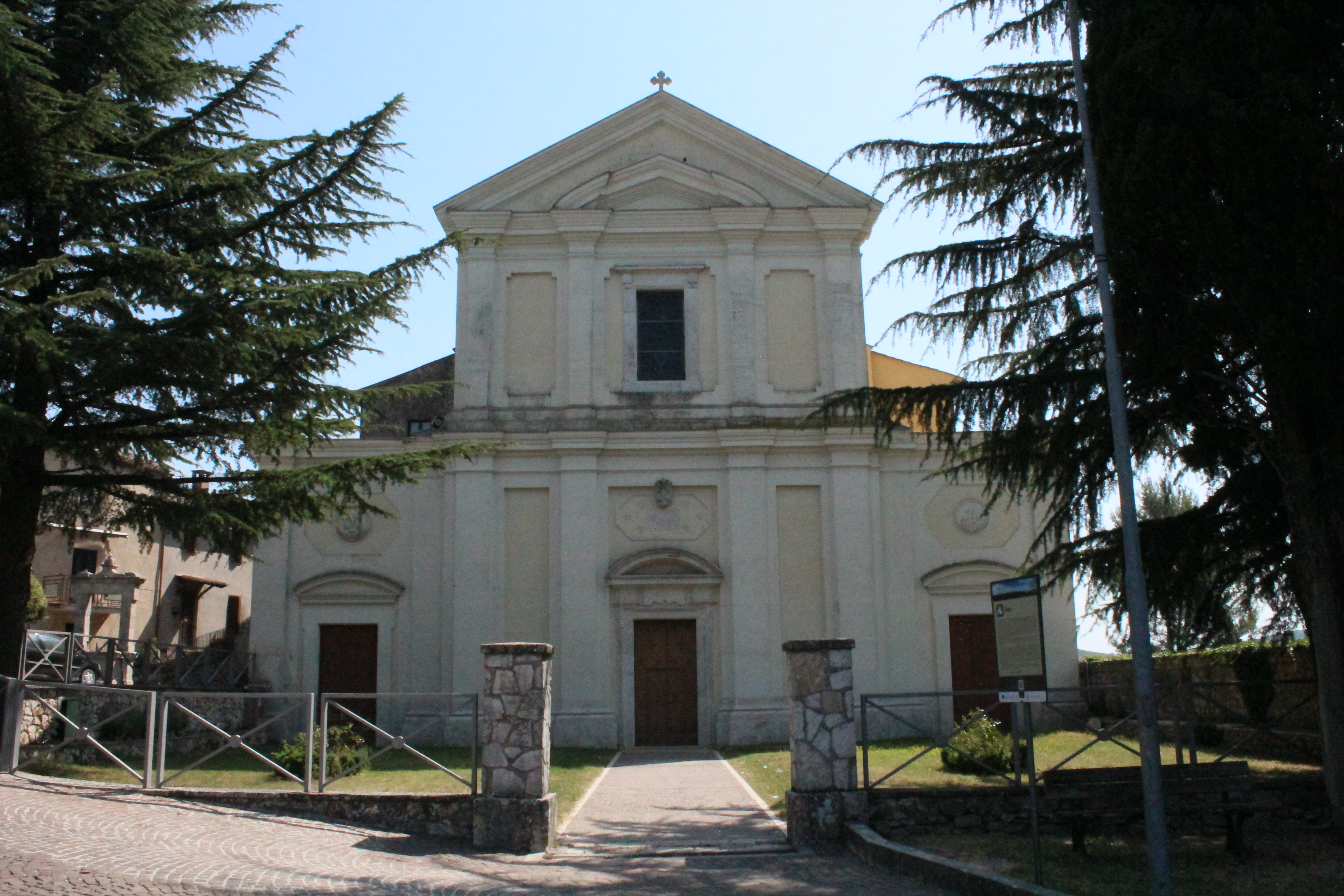 Santuario Santa Maria delle Grazie in Foce, hamlet of Amelia, Province of Terni, Umbria, Italy